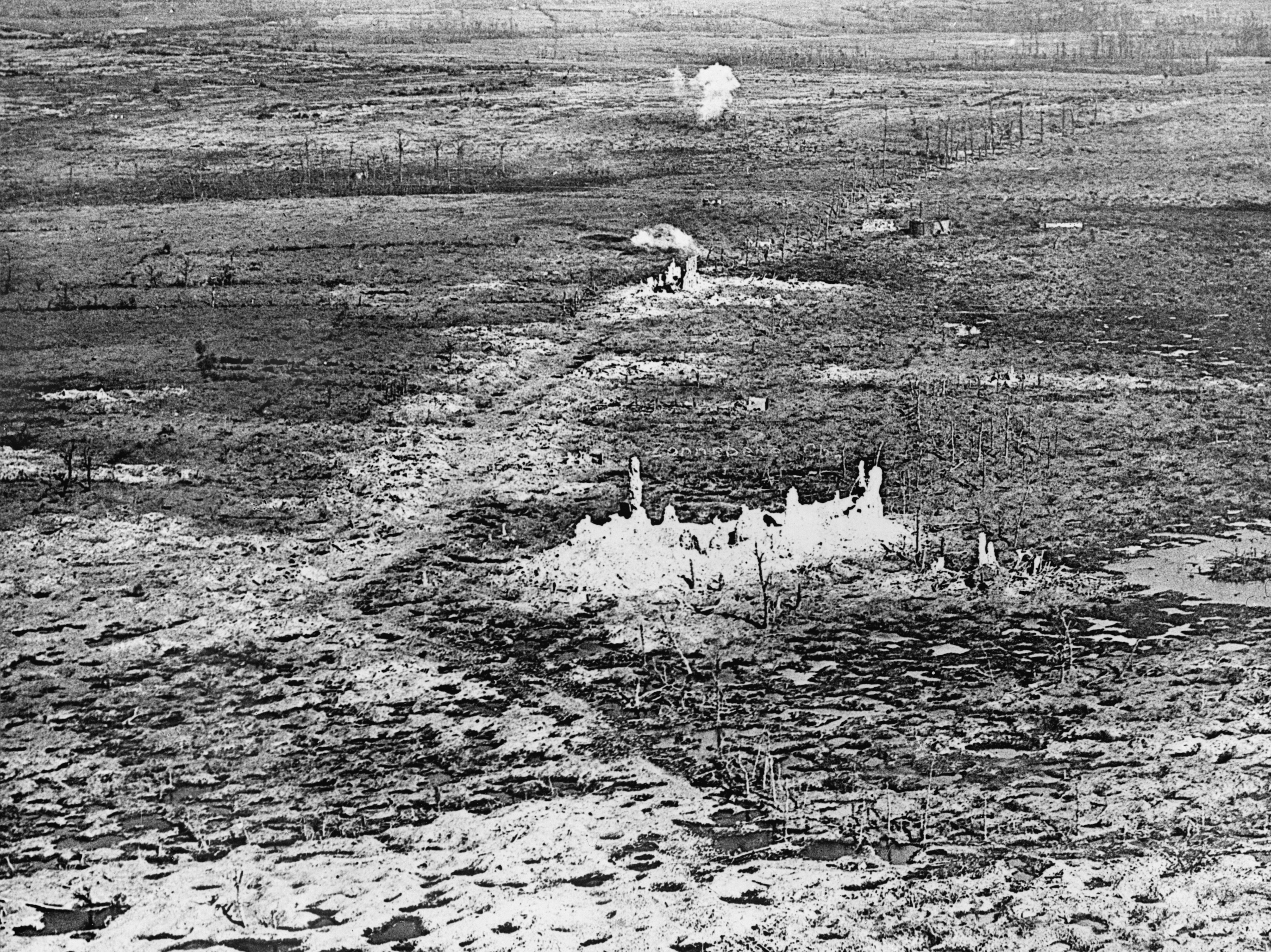 Destruction on the Western Front 1914-1918 Aerial view of ruins of Zonnebeke Church.